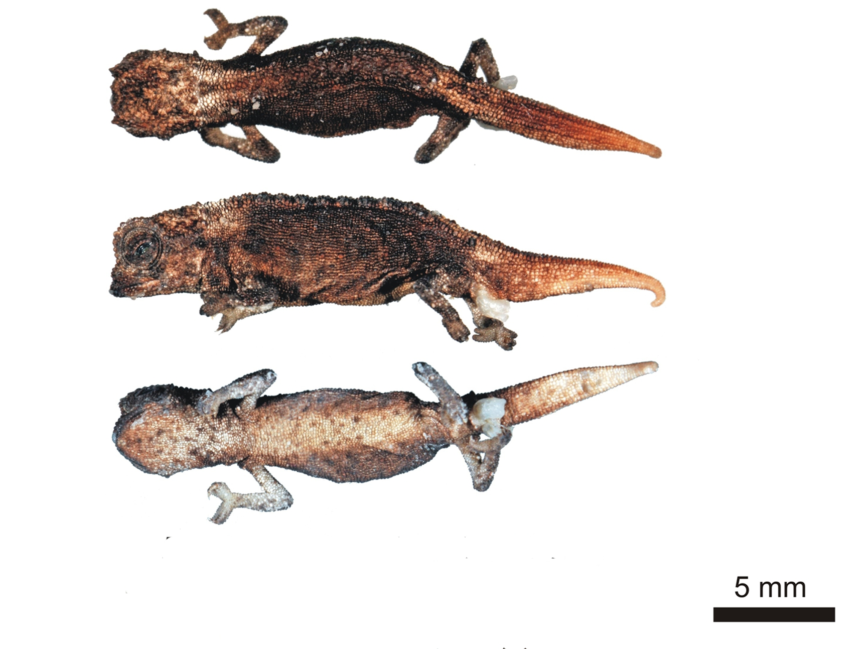 Holotype of Brookesia micra.